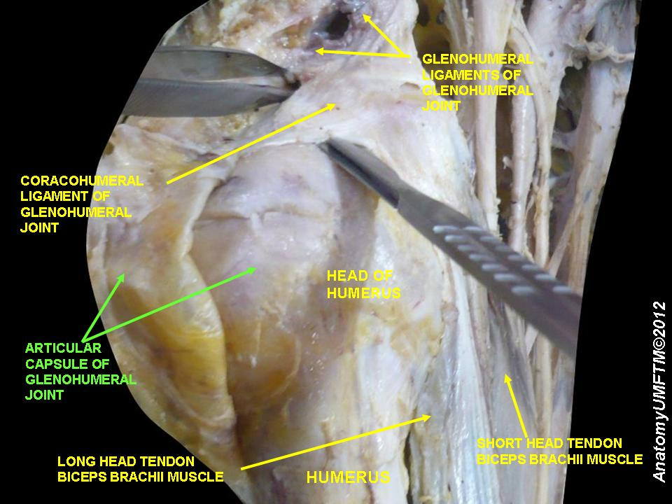 Anatomical dissections